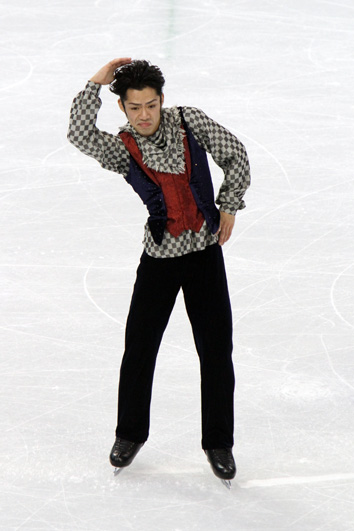 Daisuke Takahashi at the 2010 Winter Olympics.